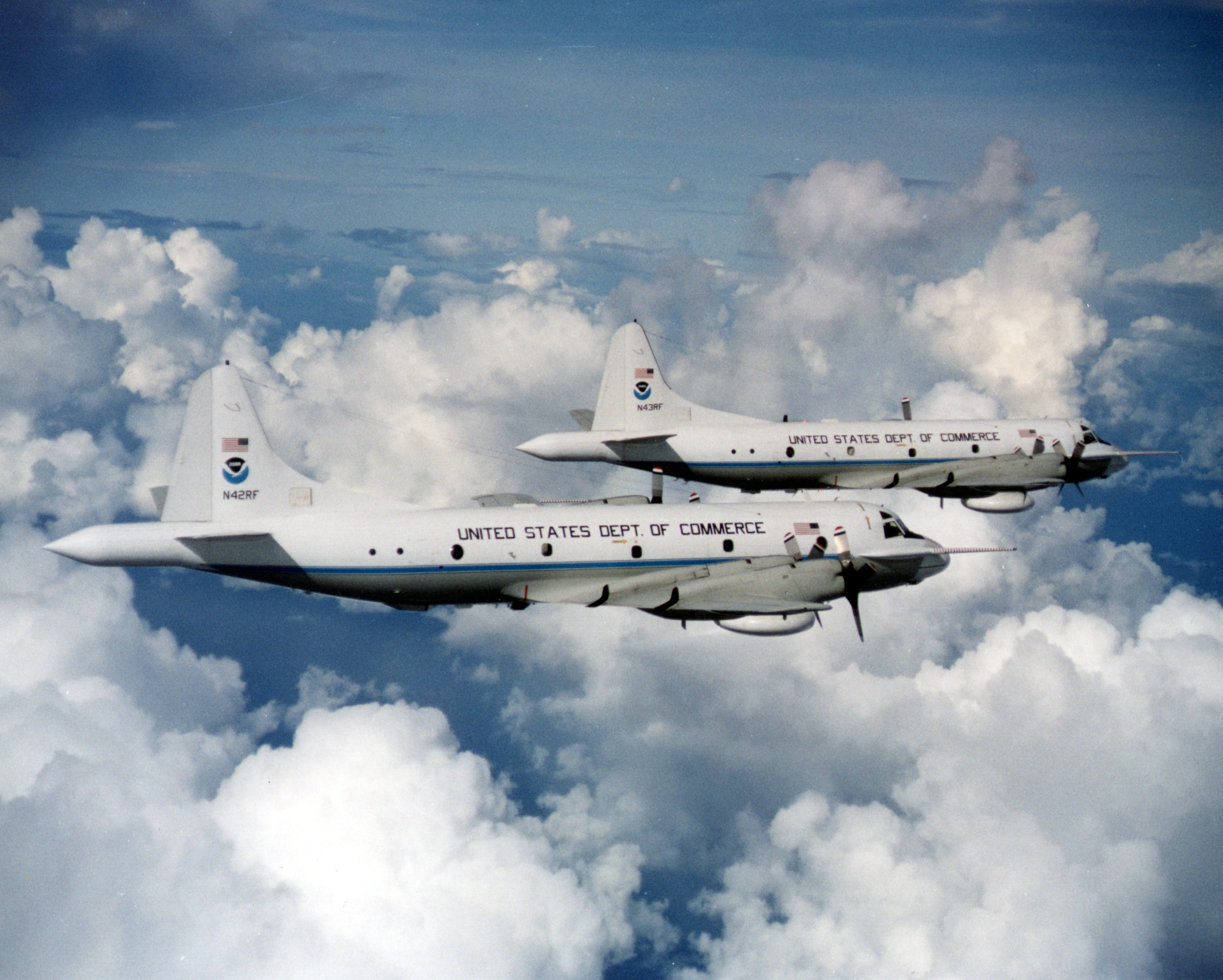 Two Lockheed WP-3D Orion aircraft of the U.S. National Oceanic & Atmospheric Administration in flight.